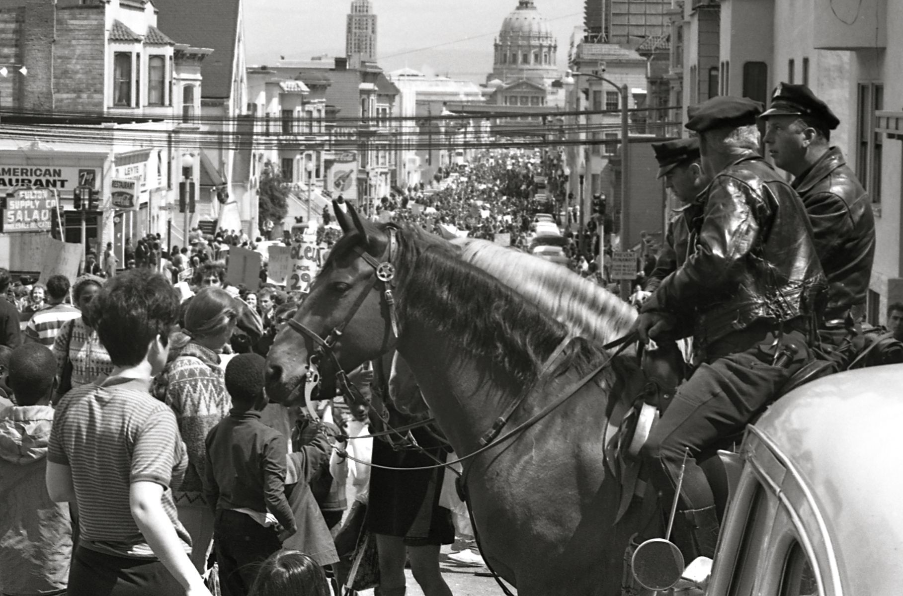 Mounted policemen watch a Vietnam War protest march in San Francisco, April 15, 1967, as thousands of marchers stream by. The San Francisco City Hall is in the background. Other information Photo by George Garrigues.